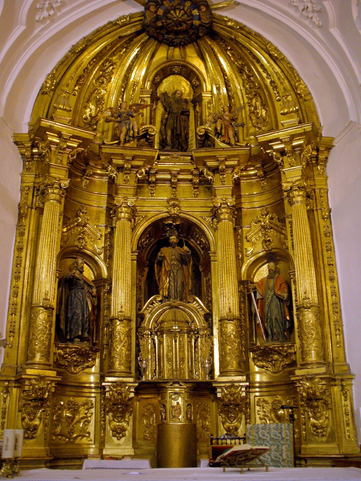 Retablo mayor de la iglesia de Santo Tomás, Segovia.